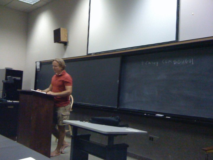 Casey Clabough Clabough Lecturing at USC